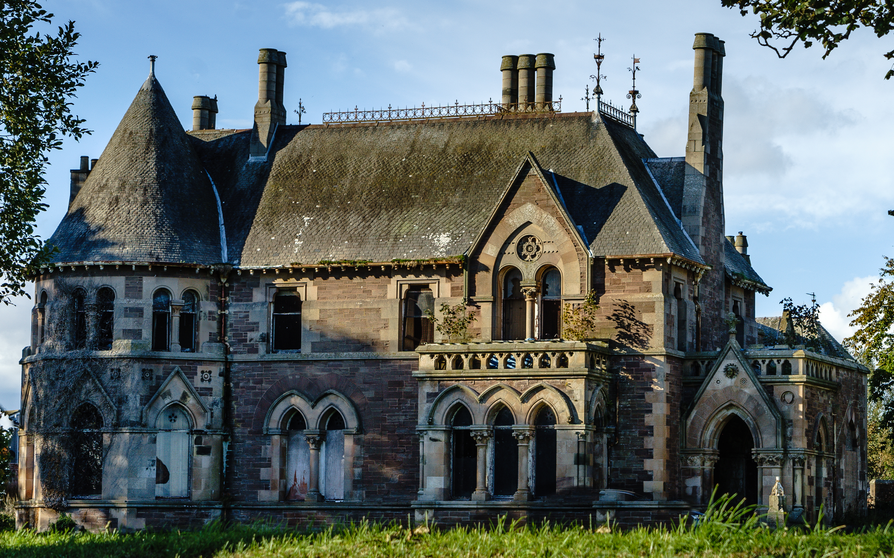 Arbroath, Cairnie Road, The Elms Wikidata has entry Q17571787 with data related to this item.